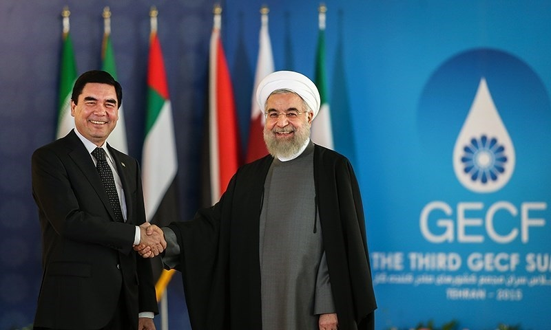 Third GECF summit, Tehran, Iran